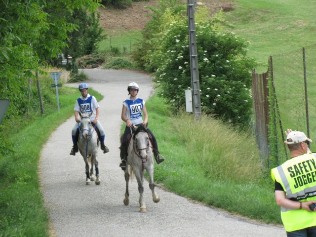 Endurance ride